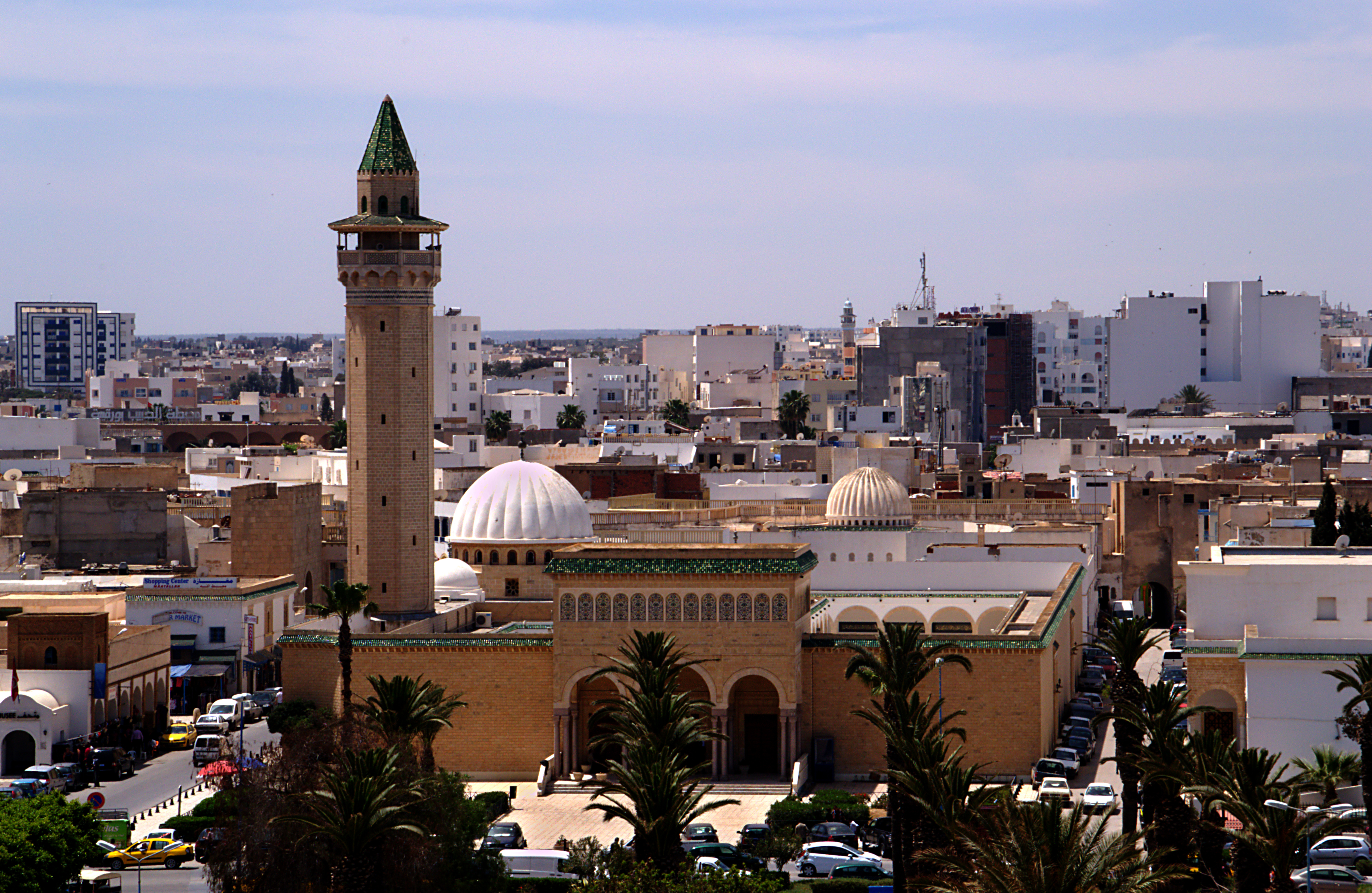 Bourguiba Mosque at Monastir